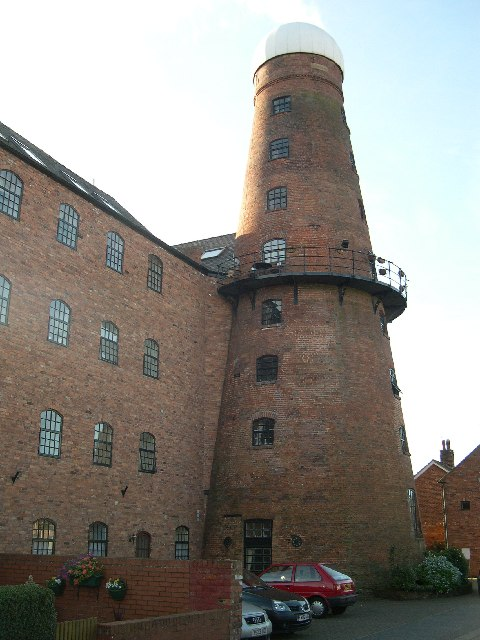 Le Tall's Mill, Lincoln. Now house converted